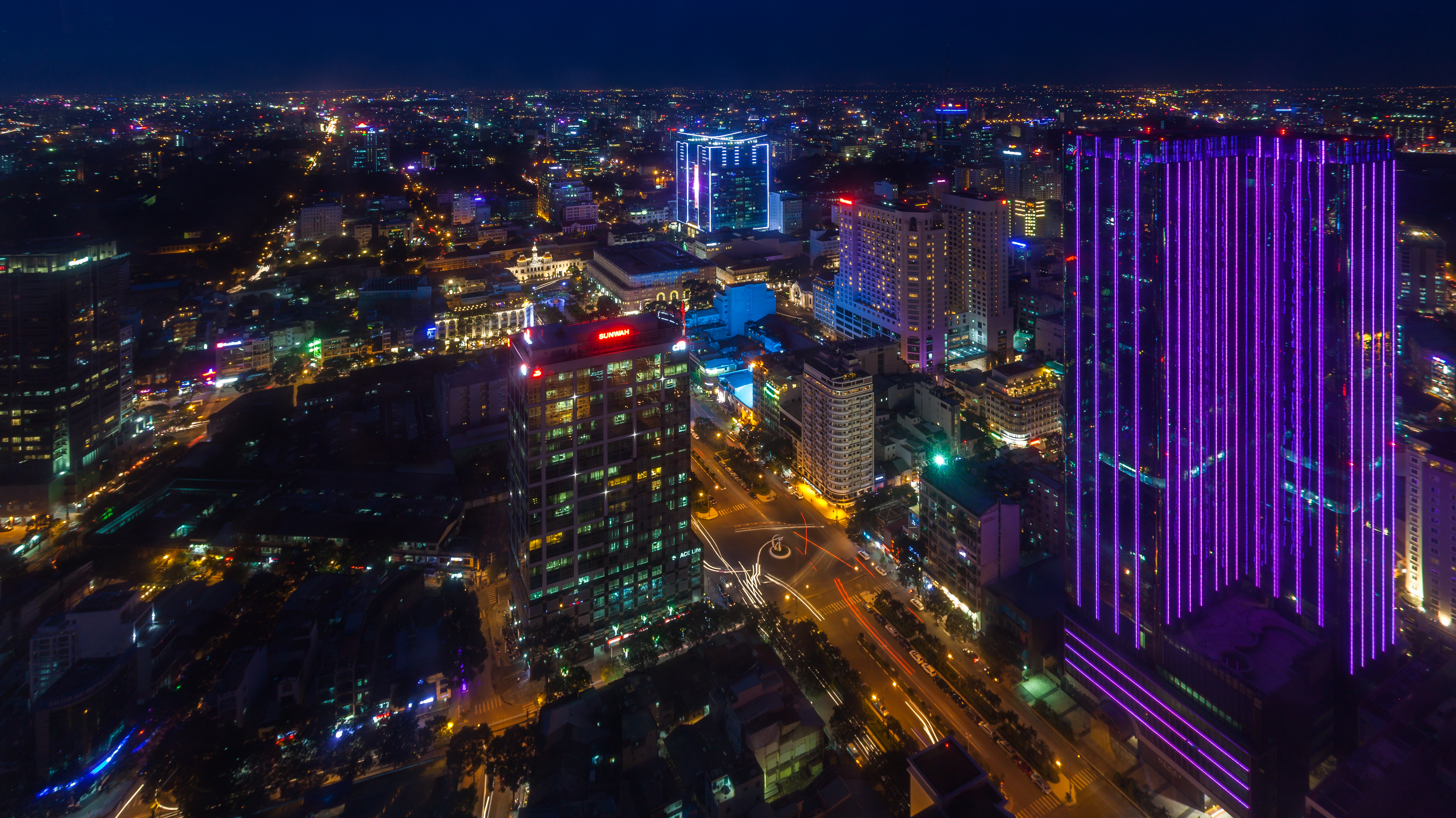 View of Ho Chi Minh City from Bitexco Financial Tower, Vietnam